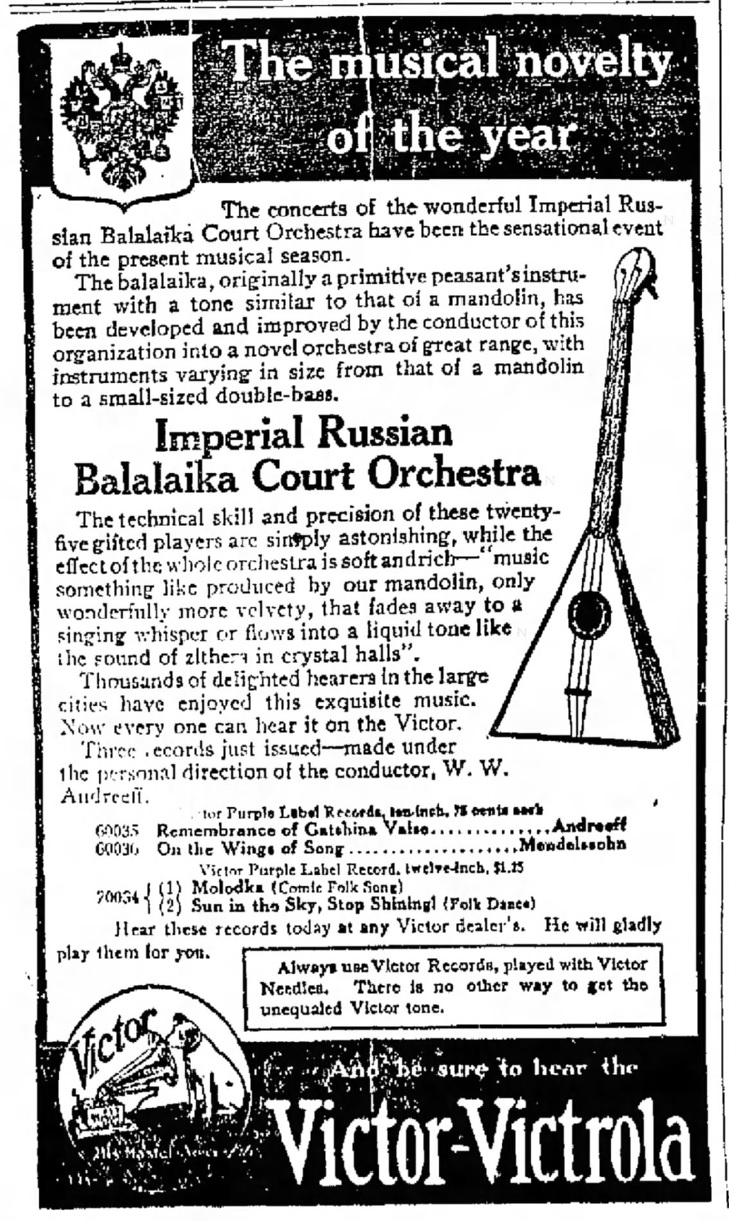 Advertisement by Victor Records for the Imperial Russian Balilika Court Orchestra.